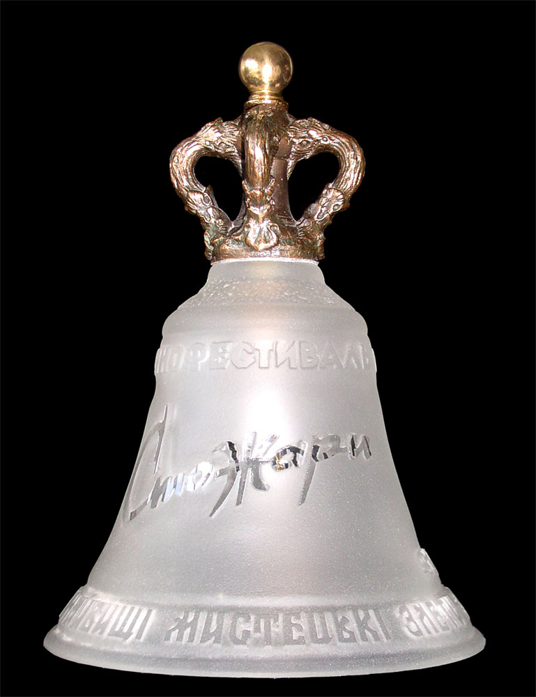 Author: artist Stanislav Kadochnikov, Ukraine.